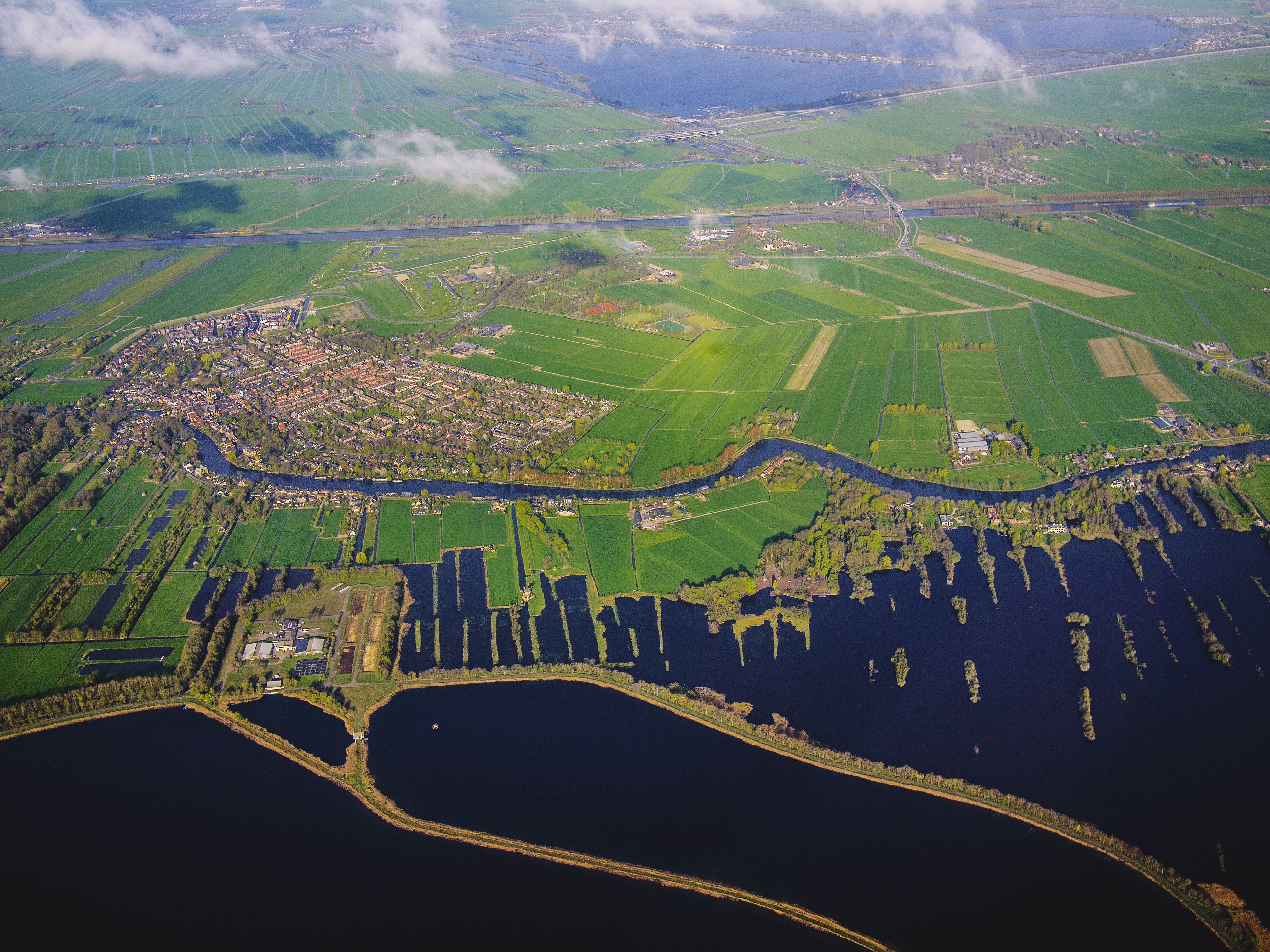 Netherlands